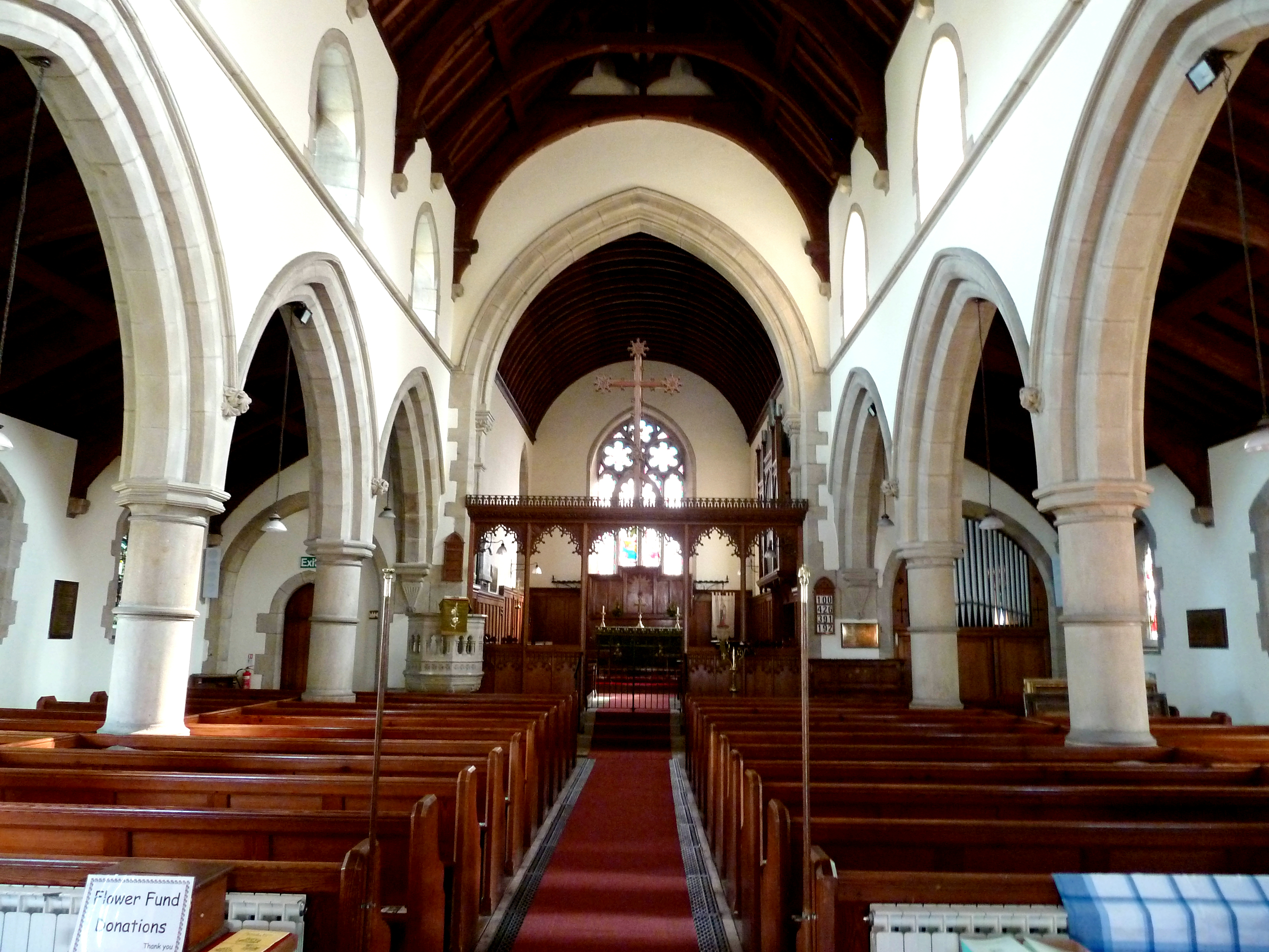 Interior of Church of St Thomas the Apostle, Killinghall, North Yorkshire, England. Church completed in 1880, by architect William Swinden Barber. View from nave to chancel.